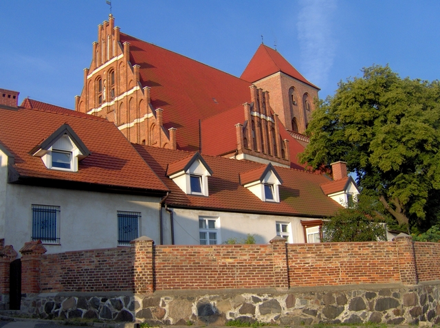 church in Puck, gothic, summer 2006